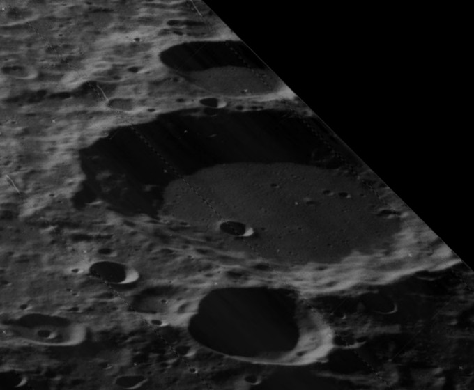 Oblique view of most of Coulomb, on the far side of the moon, facing west. Coulomb J in foreground, most of Coulomb V in background. (Black field in upper right is edge of original photo.)